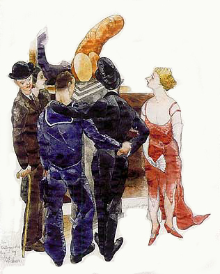 Charles Demuth (1883-1935), A distinguished air, Watercolour (1930). A homosexual couple, composed by a sailor and a distinguished gentleman, gives a bigger thrill to the visitors of the "daring" art exhibition than they dared to hope...